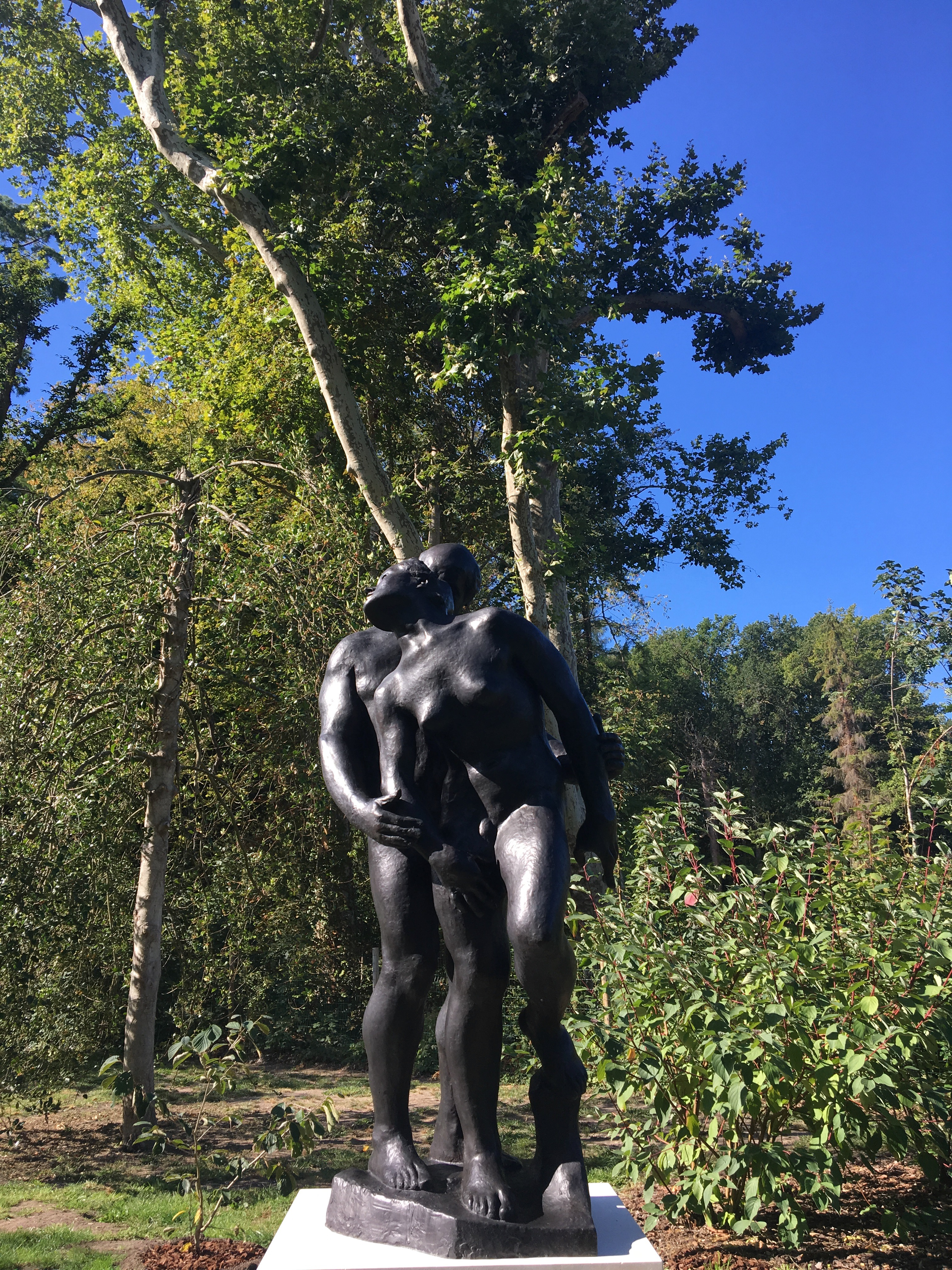 La Chute Brons 1/8 220cm - Petterssons Gjuteri - Château de Cheverny